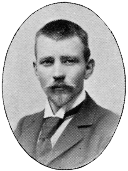 Image scanned from the book "Svenskt Porträttgalleri XX - Arkitekter, Bildhuggare, Målare m.fl. " ("Swedish Portrait Gallery XX - Architects, Sculptors, Painters, ") published 1901